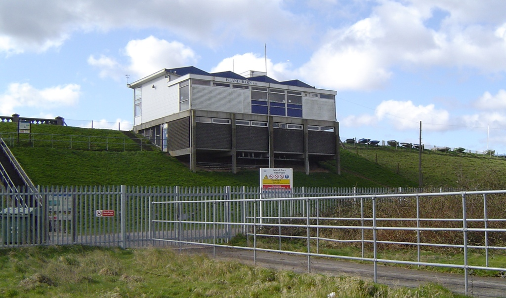 Island Barn reservoir Surrey East Molesey